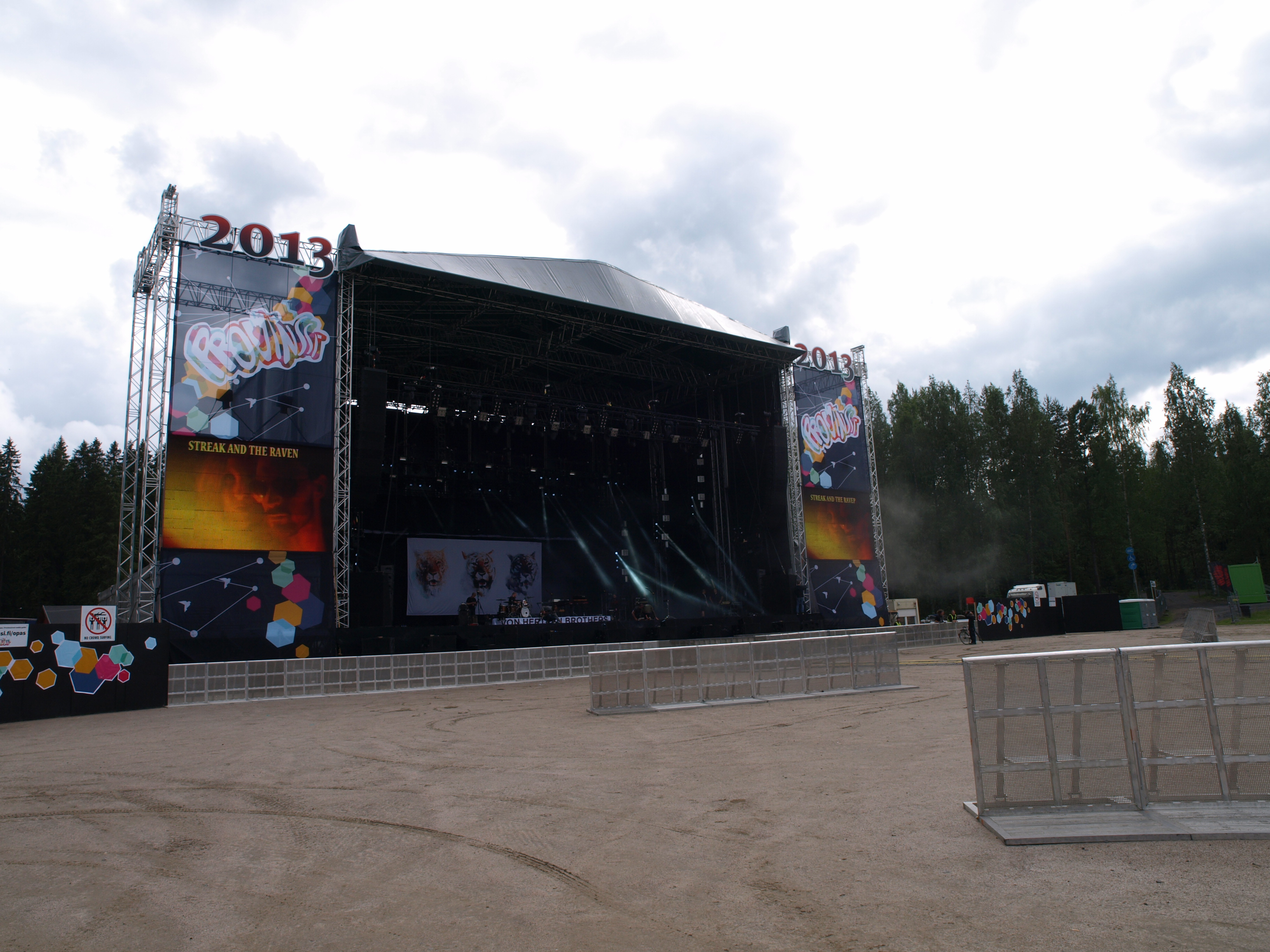 Premises of Provinssirock 2013, Seinäjoki, Finland: Mainland Stage